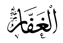 This is one of the Names of Allah. It means The Very Forgiving One.